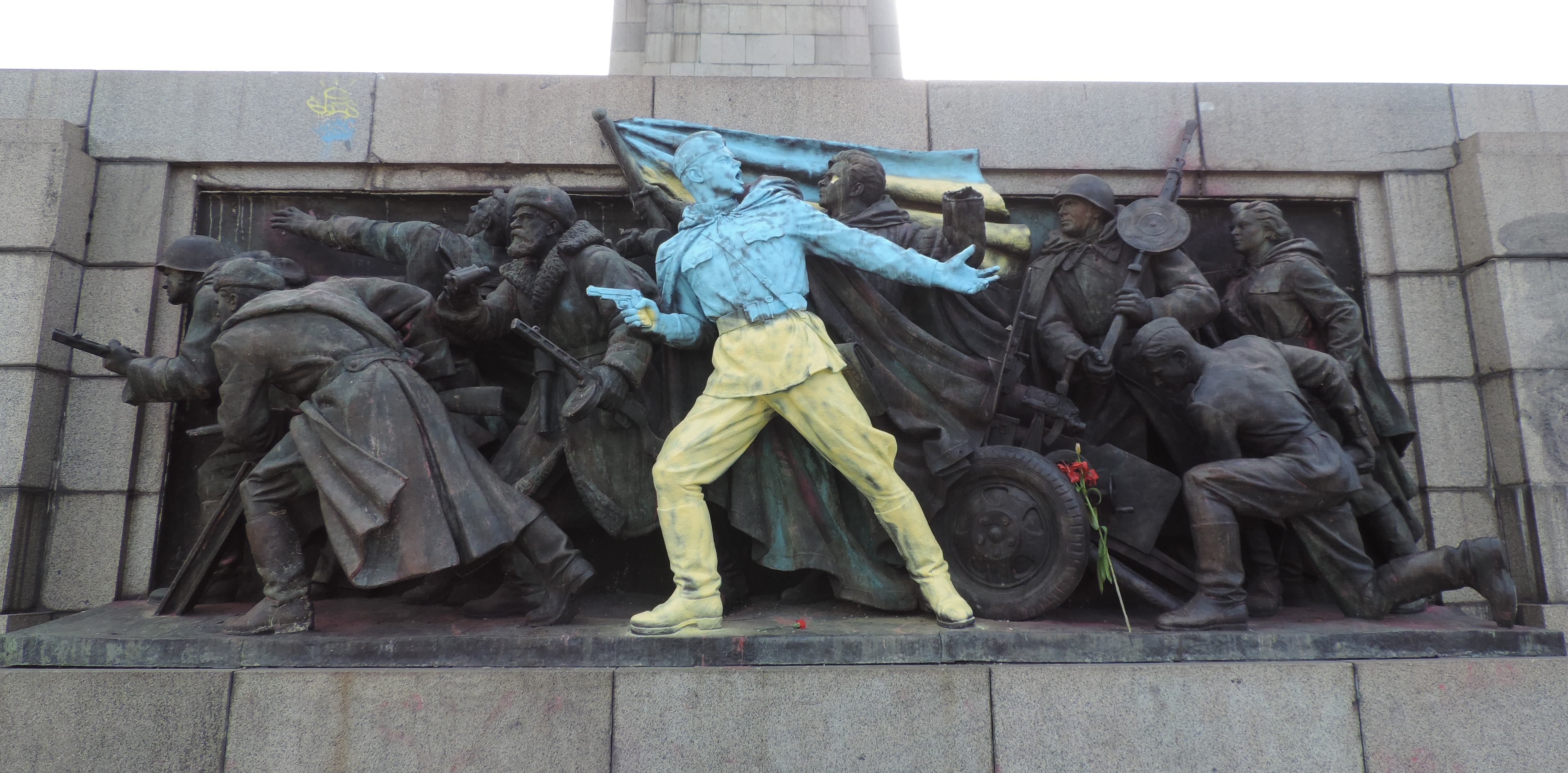 The Monument to the Soviet Army, Sofia, a day after it has been coloured in the colours of Ukrainian national flag and the inscription "Glory to Ukraine".